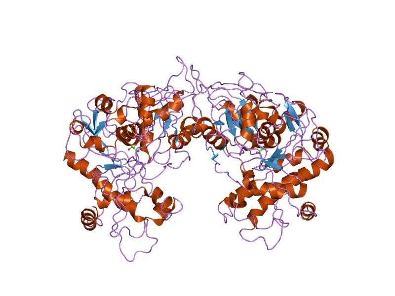 Cartoon representation of the molecular structure of protein registered with 1xup code.